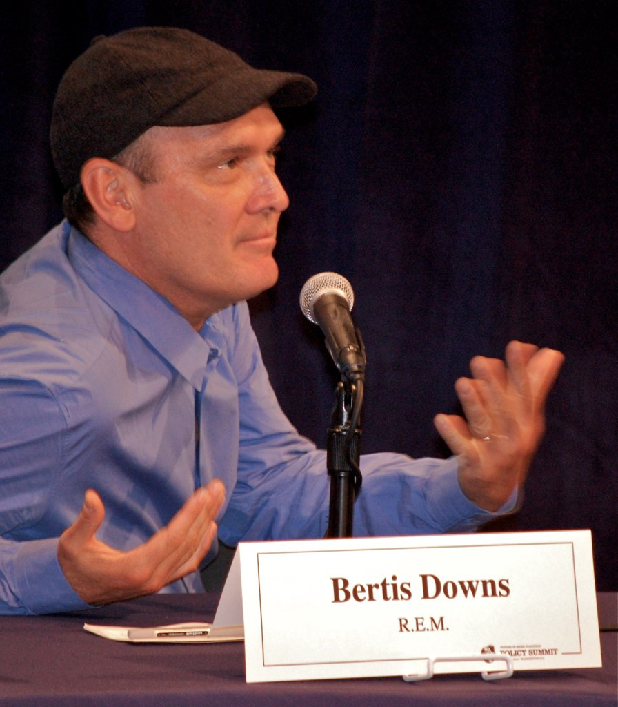 Lawyer and manager of alternative rock band R.E.M. Bertis Downs discussing the music industry in a 2010 conference at Georgetown University.